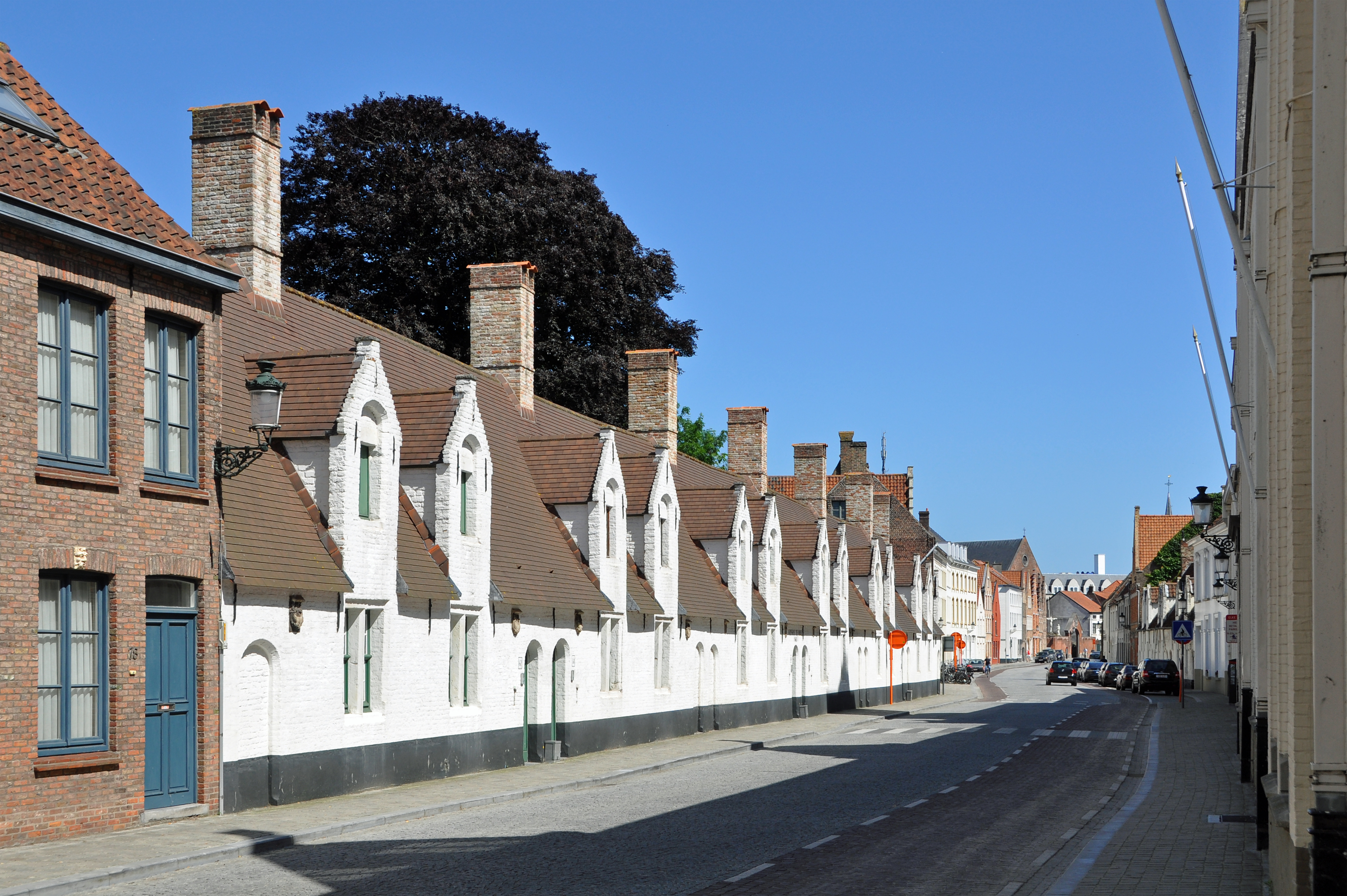 Bruges (Belgium), Boeveriestraat 52-62: almshouses 'De Moor'